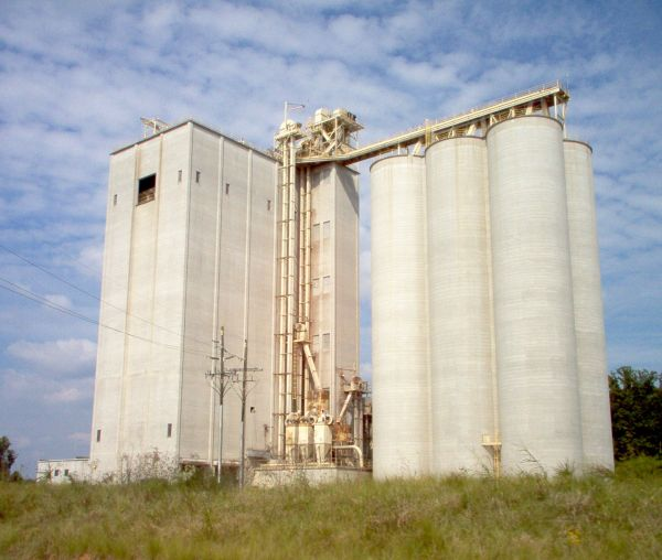 This is the Cagle's chicken feed production plant for local chicken houses in Rockmart. The Cagle Plant stands on the east side of Georgia Highway 101, just north of the intersection with U.S. Highway 278 on the north side of town.